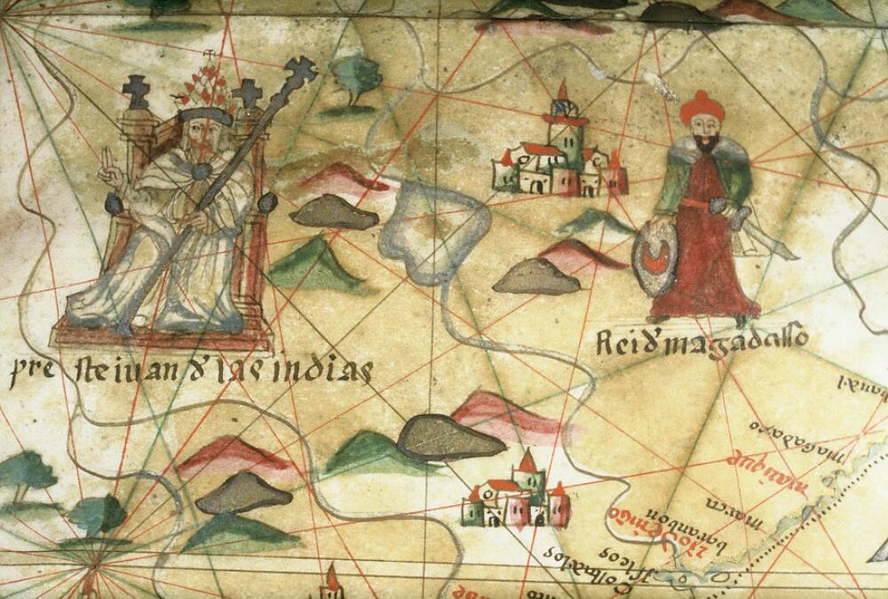 Prester John of the Indies. Close-up from a portolan chart. Shelfmark: MS. Douce 391